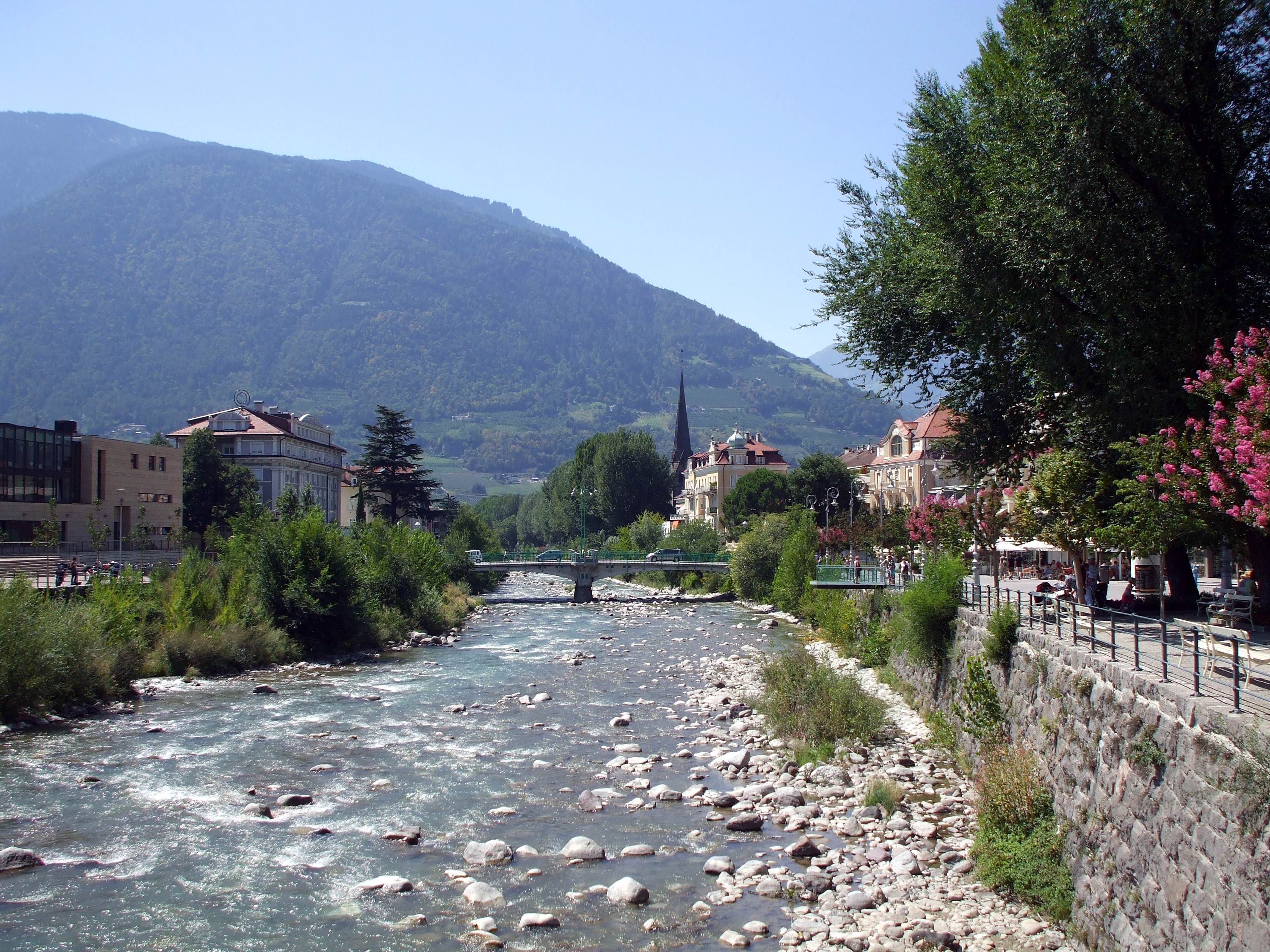 Merano